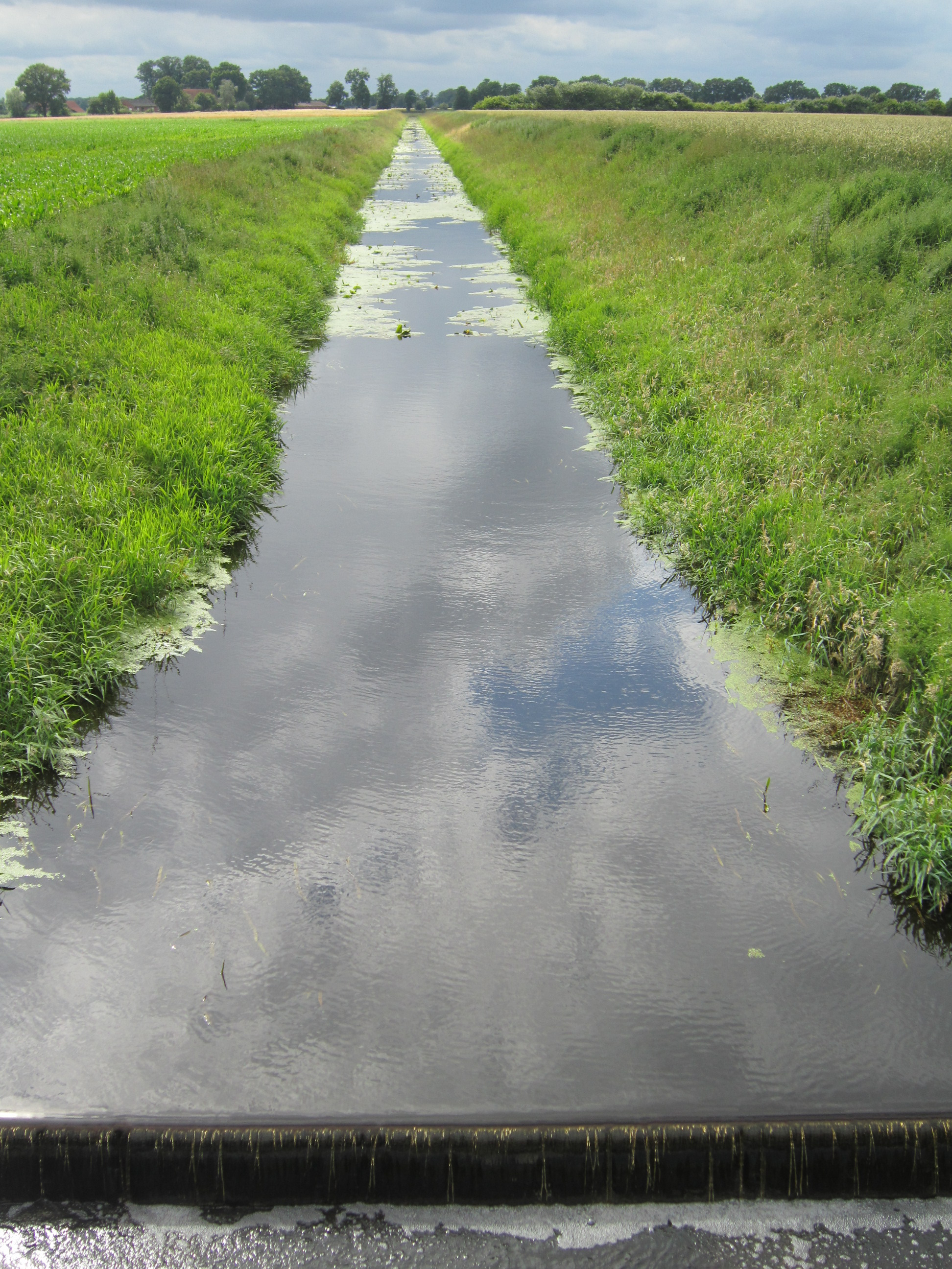 Dadau north of Drebber (Landkreis Diepholz, Lower Saxony)